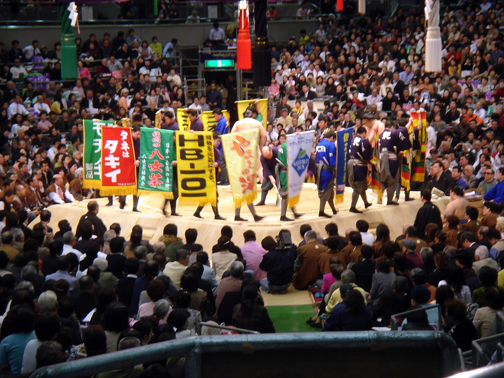 The kensho is an amount of money (50 000yens) given by a sponsor to have his name passing on the dohyo. This money is given to the winner of the bout. For the yokozuna bout, it's not unusual to have more than 15 kensho. See where this picture was taken. [?]